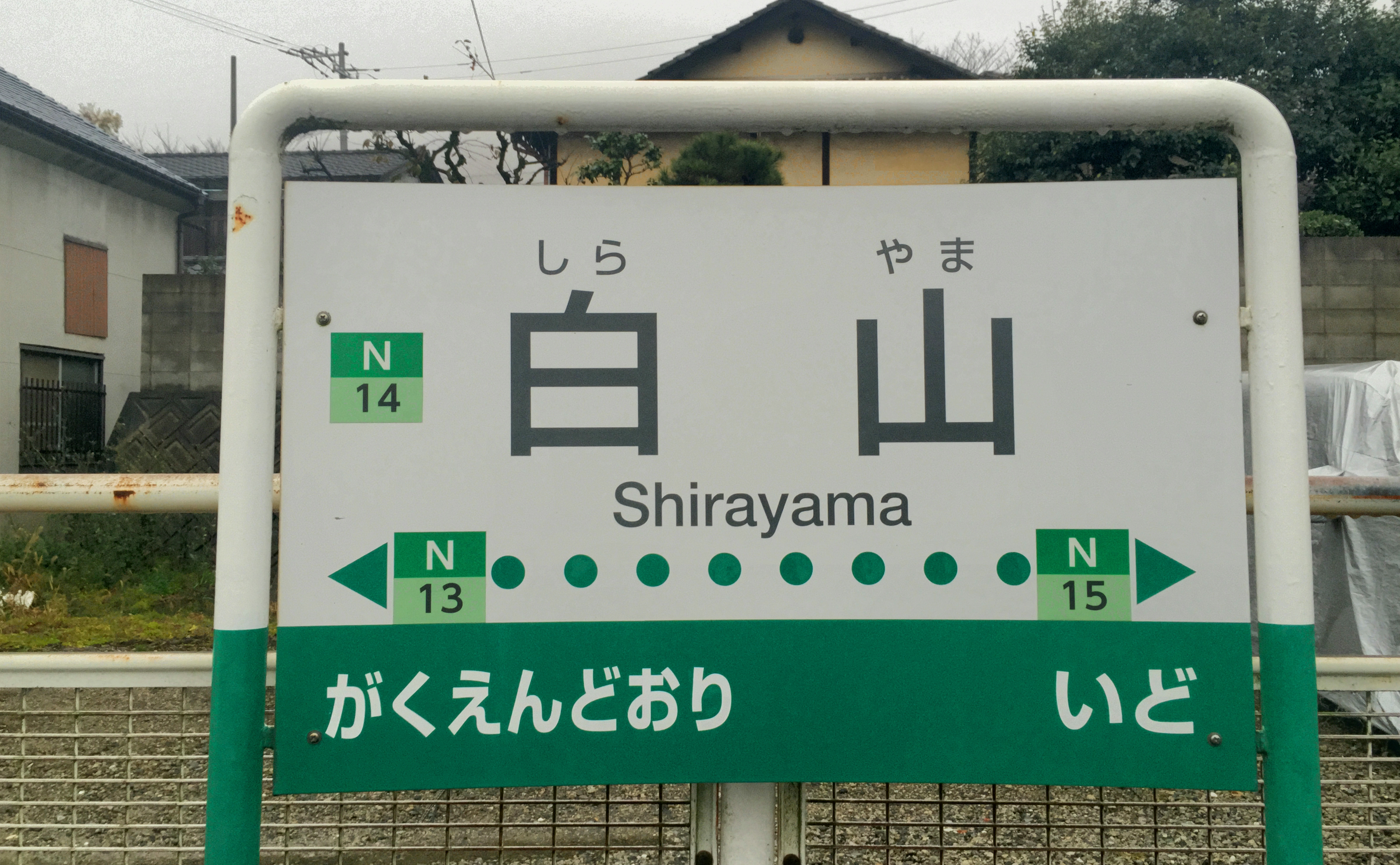 Shirayama Station Station Name Plate.